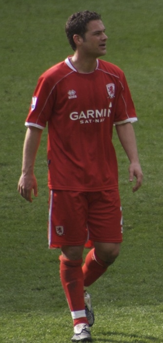 Luke Young playing for Middlesbrough against Chelsea at Stamford Bridge, London on 30 March 2008